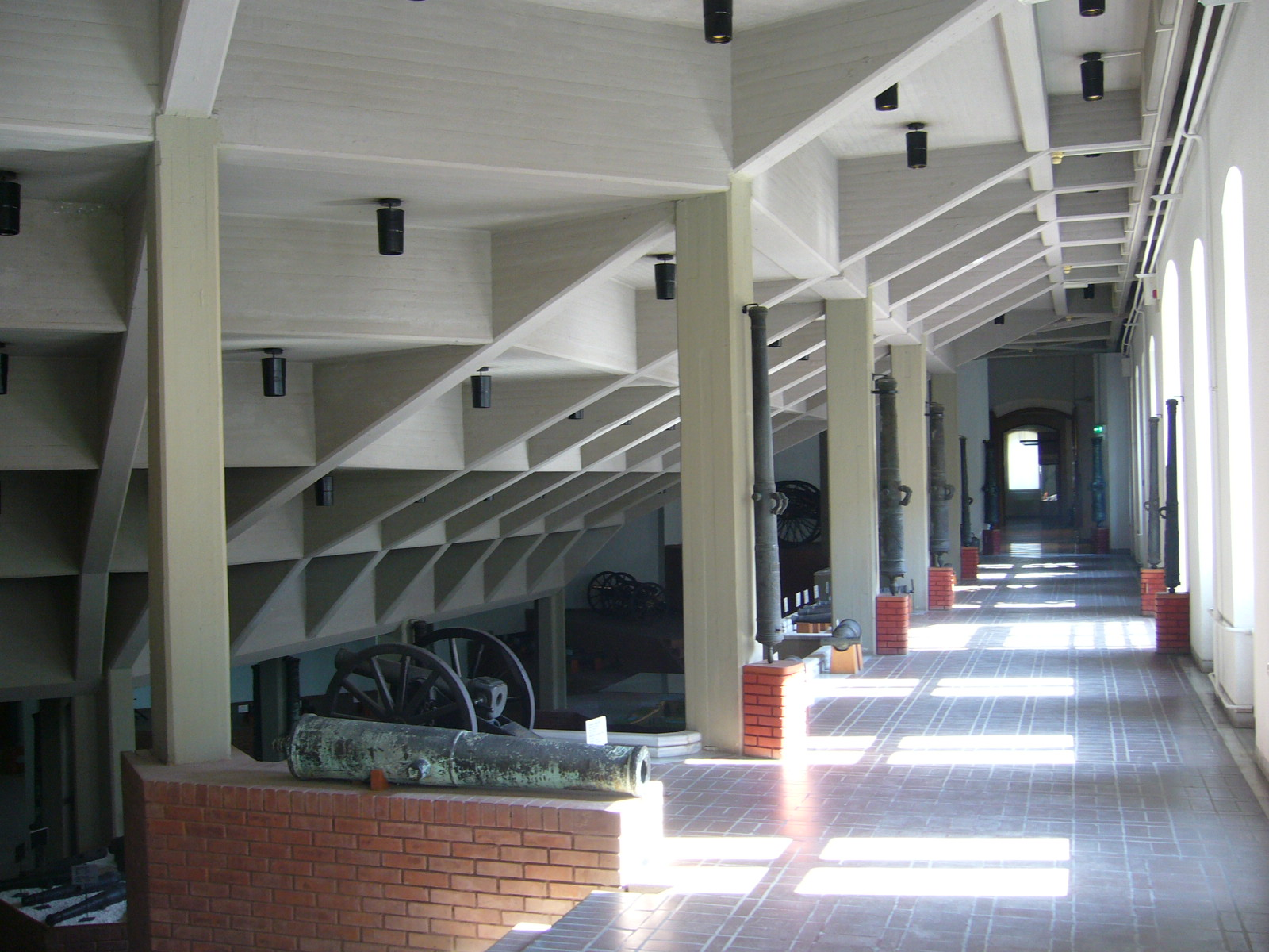 The cannon hall of the Istanbul Military Museum (Turkish Askeri Müze). This is located under the raked floor of the lecture theatre. I paid an extra 6 YTL for the privilege of taking photographs in the museum. There is nothing on the photography ticket to say that I may not publish such photographs.